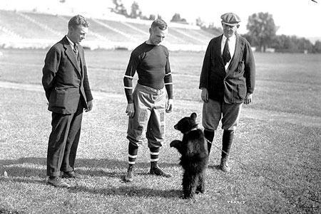 A picture of the Cornell bear, the university's mascot. The photograph depicts the third of the Cornell bears, Touchdown III, and was taken during the en:1919 football season in Schoellkopf Field. The individuals are (from left to right) Halstead Miller MacCabe '20 (manager), John H. Rush (coach), Touchdown III, Romeyn "Rym" Berry '04 (graduate manager of athletics, the equivalent of athletic director today).